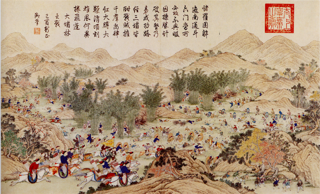 Battle of Dabulin, part of the Campaign against Taiwan 1787-1788